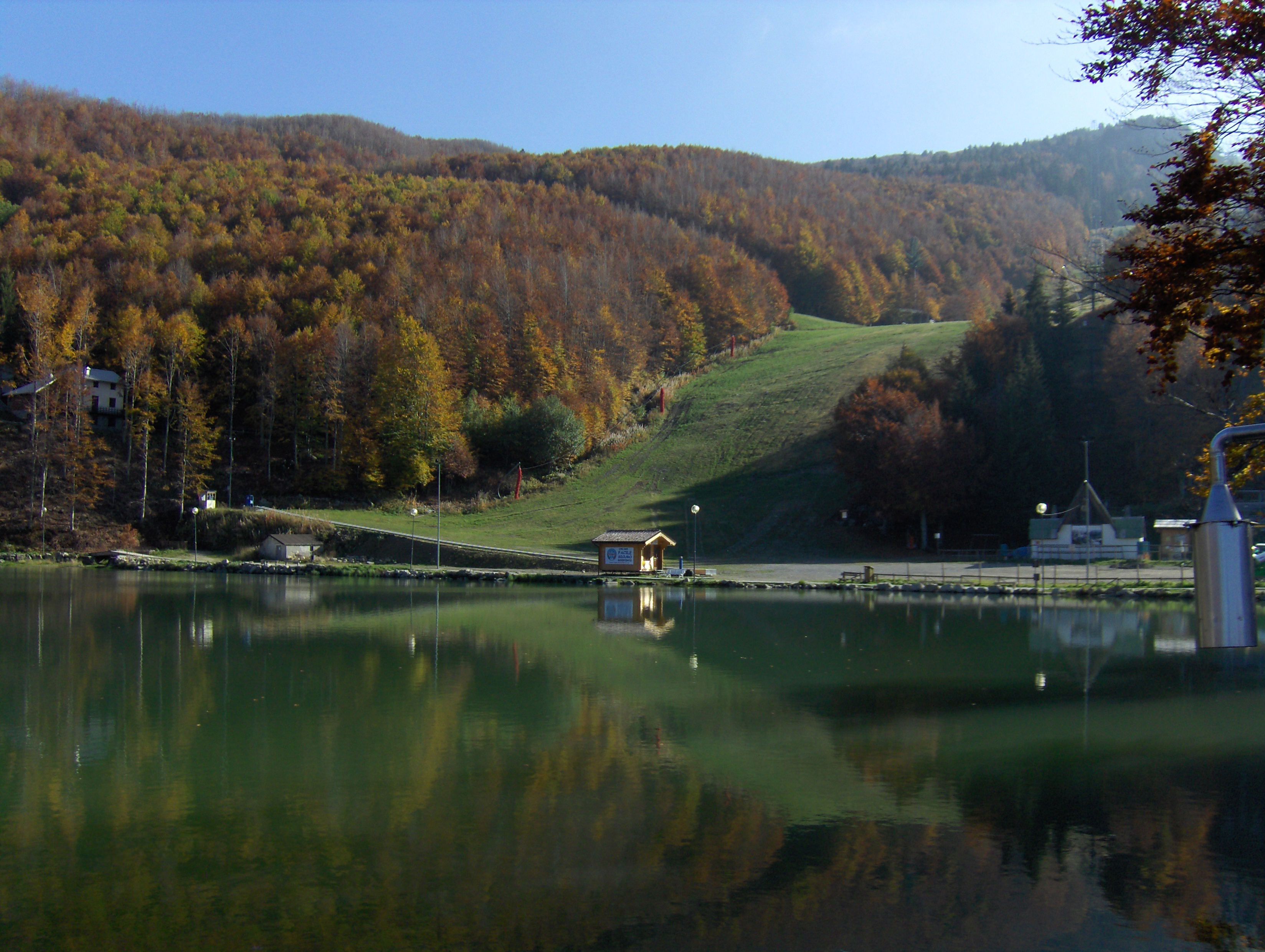 Cerreto Lake in autumn